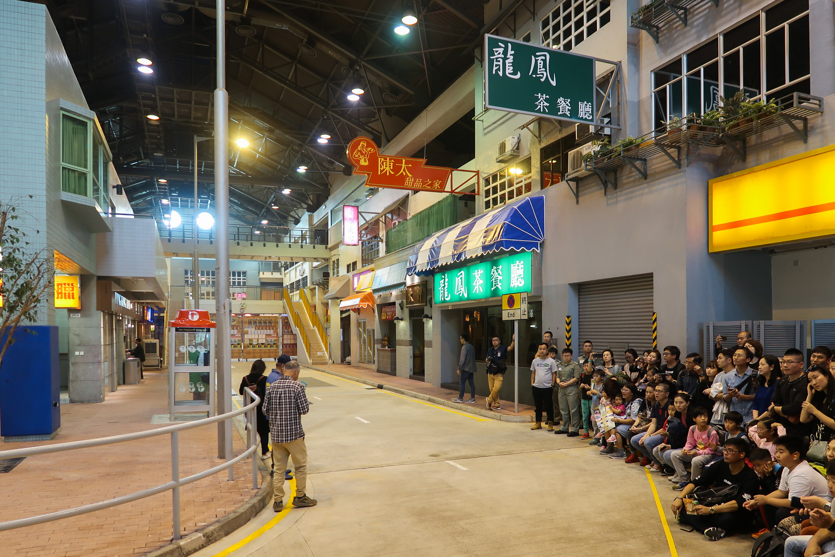 Hong Kong Police College Tactics Traning Complex